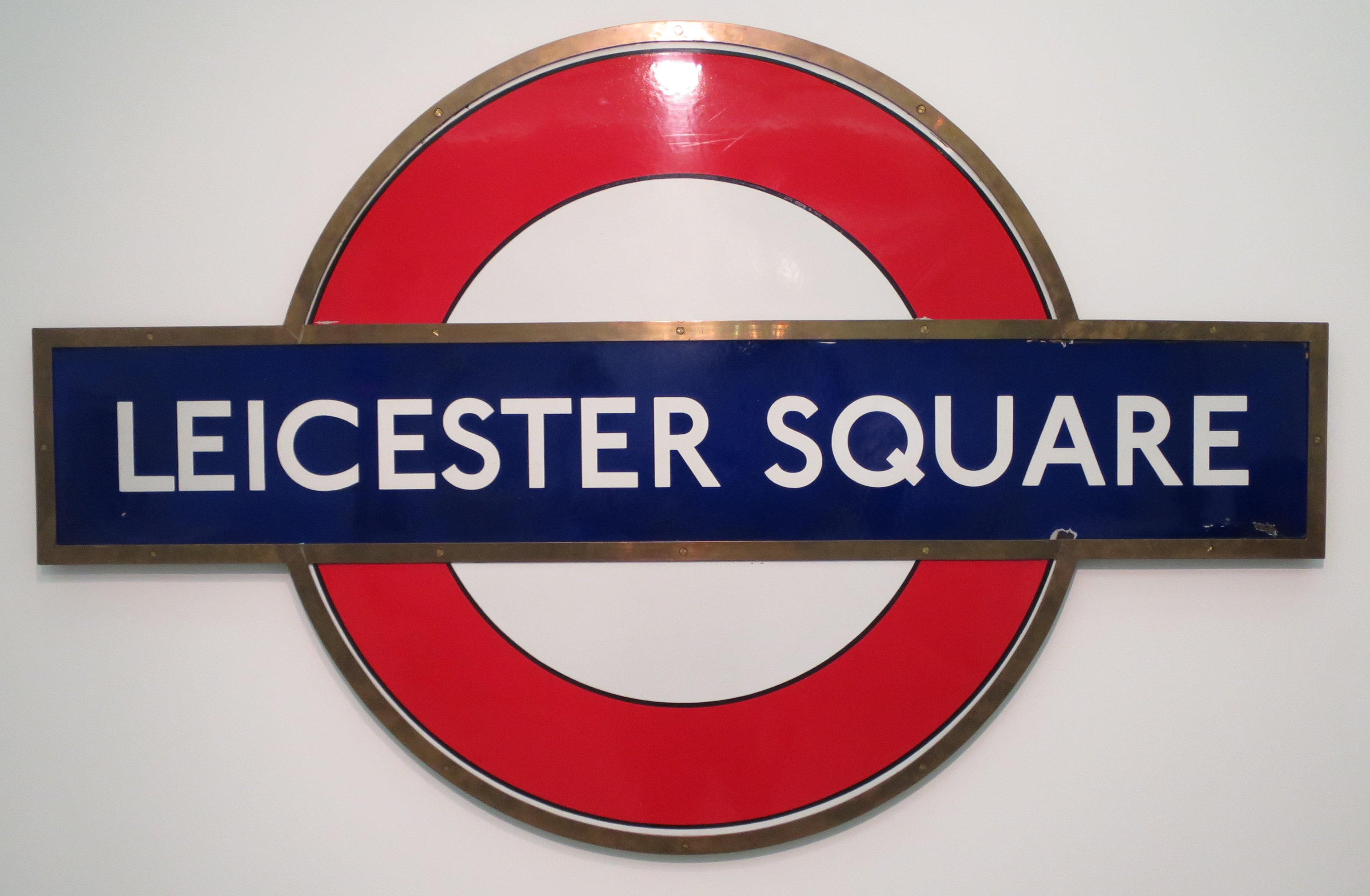 Sign, Leicester Square, c. 1930, designed by Edward Johnston, metal, brass, wood and enamel, Wolfsonian-FIU Museum